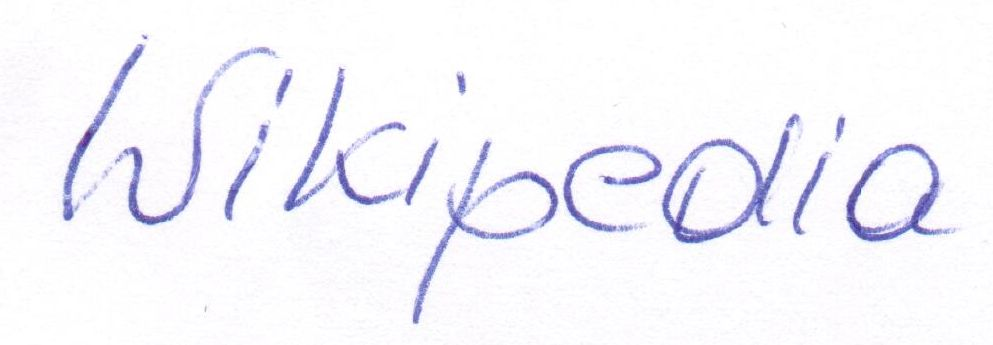 Individual handwriting with the aim of good readability for the general public.